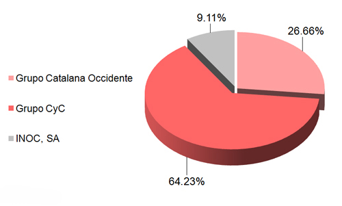 Shareholders Atradius 2010